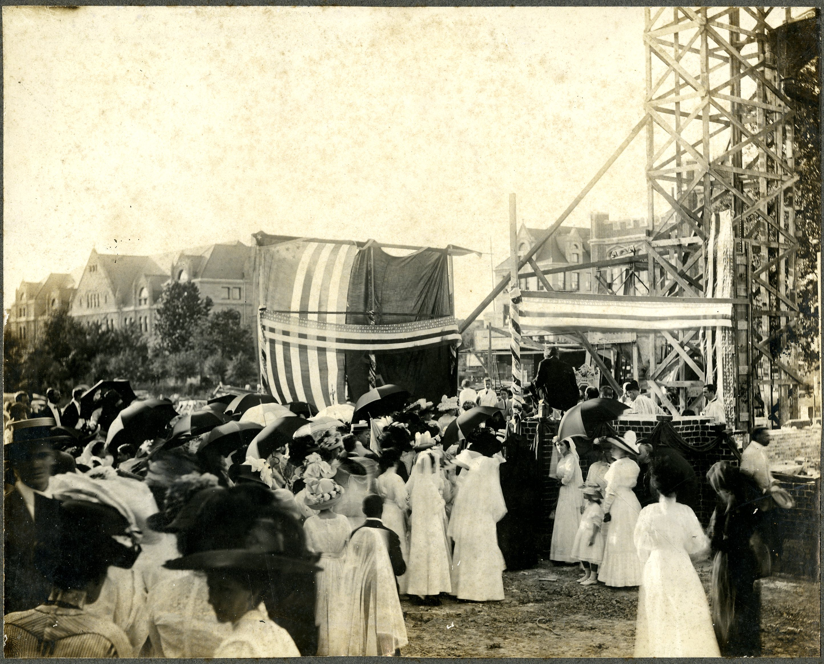 Handwritten inscription on reverse reads: "Cornerstone of Thomas Hall."